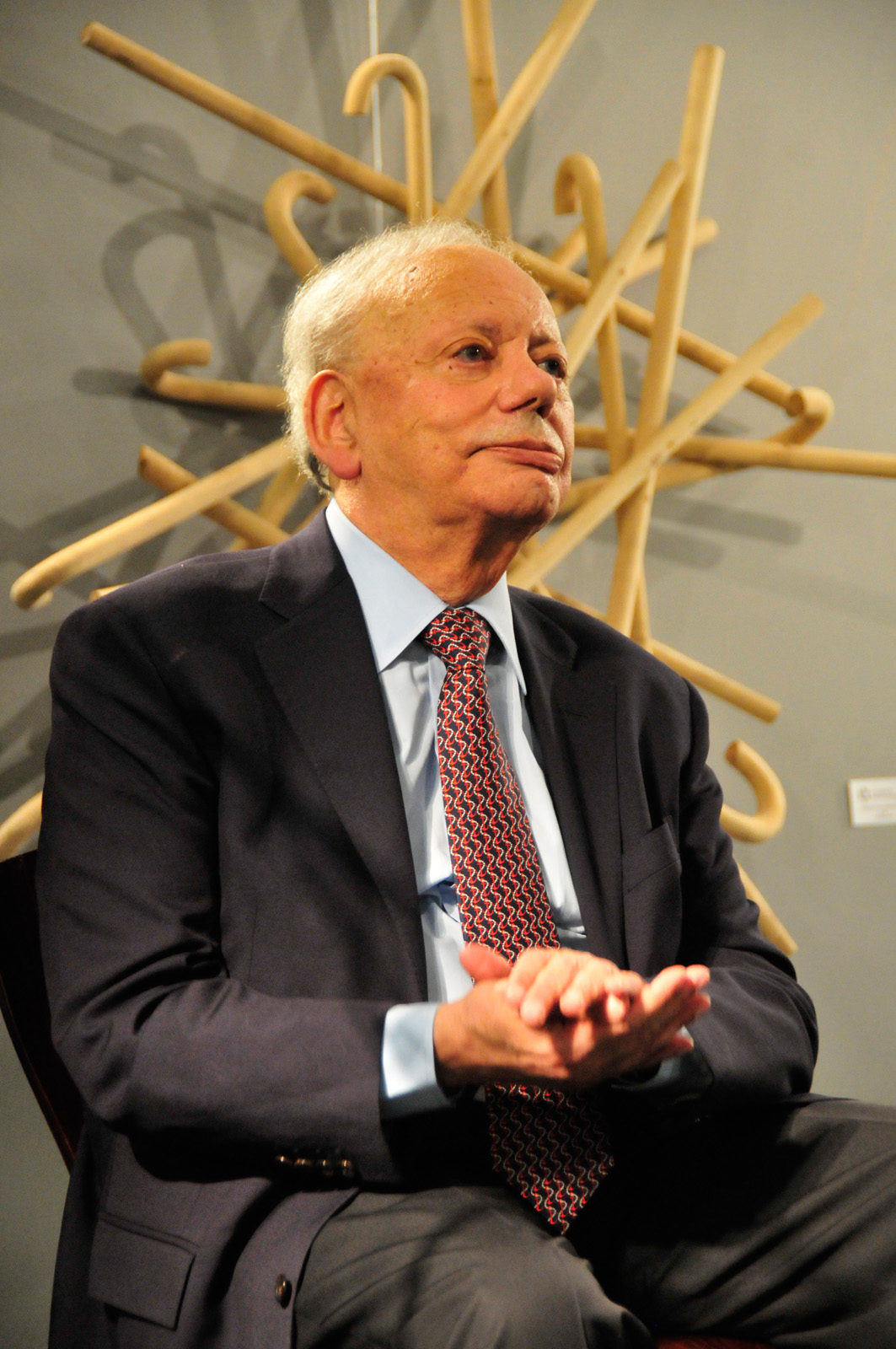 Sigmund Rolat in 2013. Background, 1940, by Leszek Napora. First Prize Winner, 2006 National Art Competition for Art School Students in Poland, in the Category of “Inspired by Jewish Culture” (1)